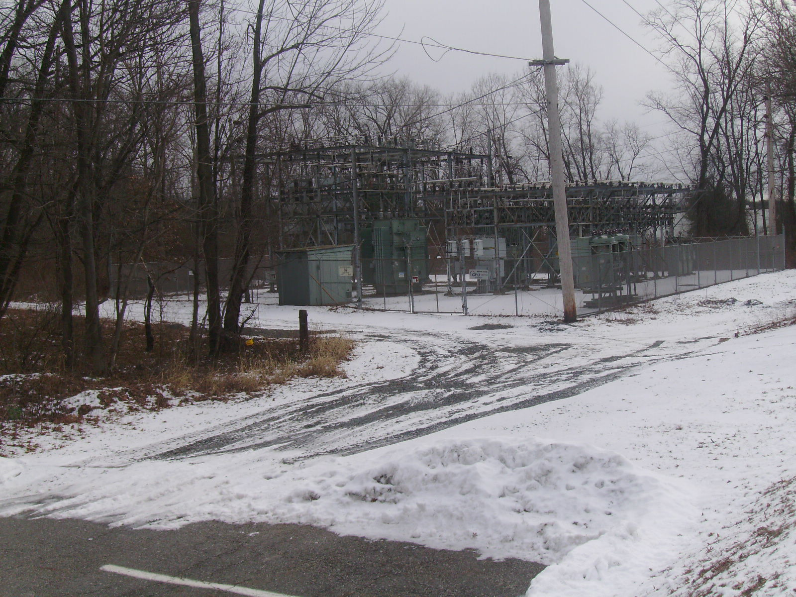 The electrical site behind the Morris Plains train station. The partial roadway was supposed to be part of NJ Route 178, a never constructed freeway.